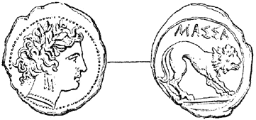 Coin of Massalia. AR. Drachm 58-55 grs. Head of Artemis / ΜΑΣΣΑ Lion.